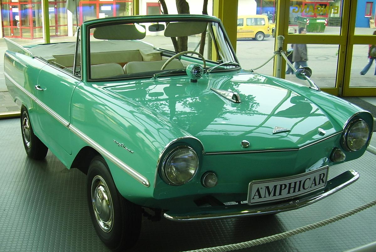 Amphicar at the Sinsheim Auto & Technik Museum (Sinsheim / Germany)